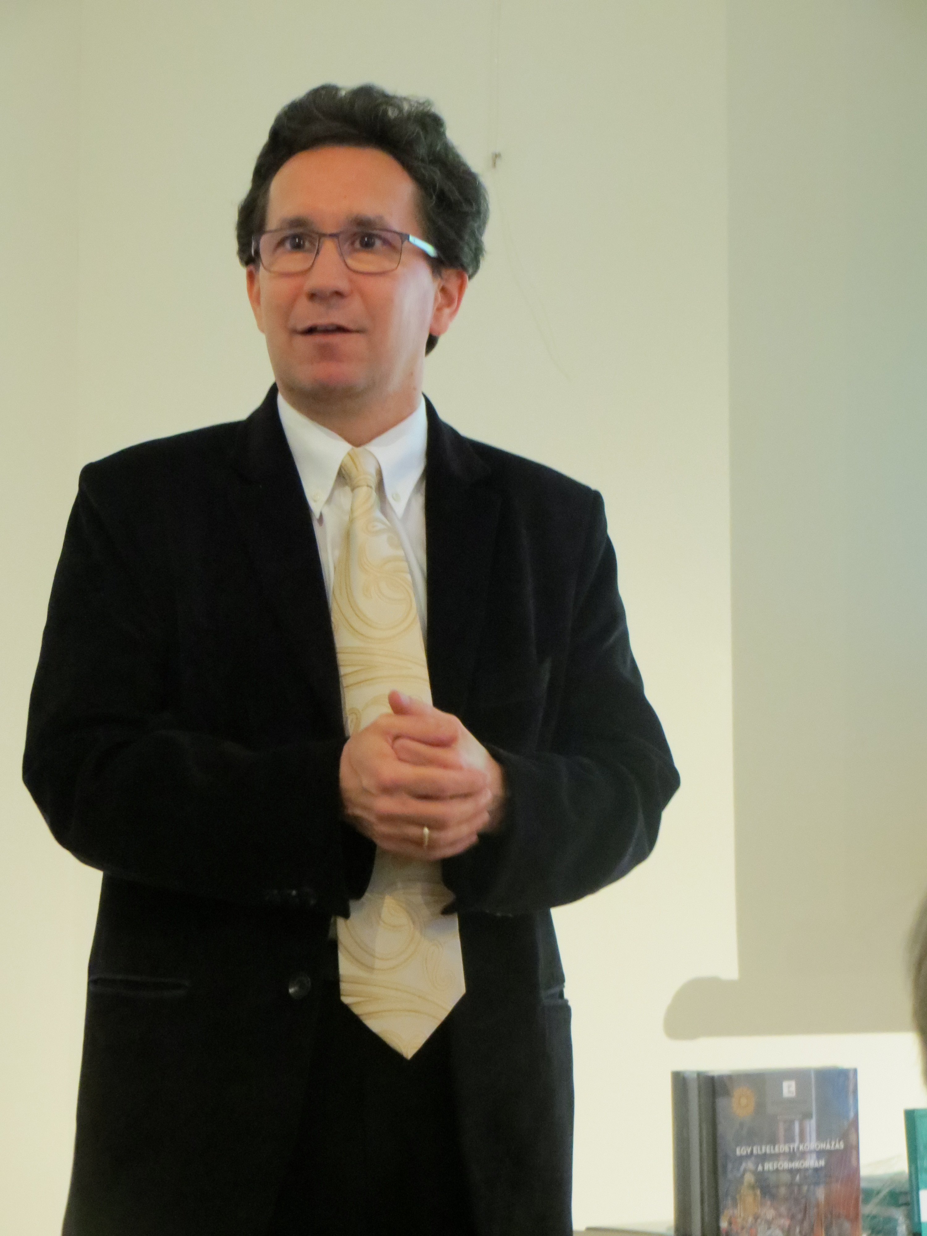 Géza Pálffy